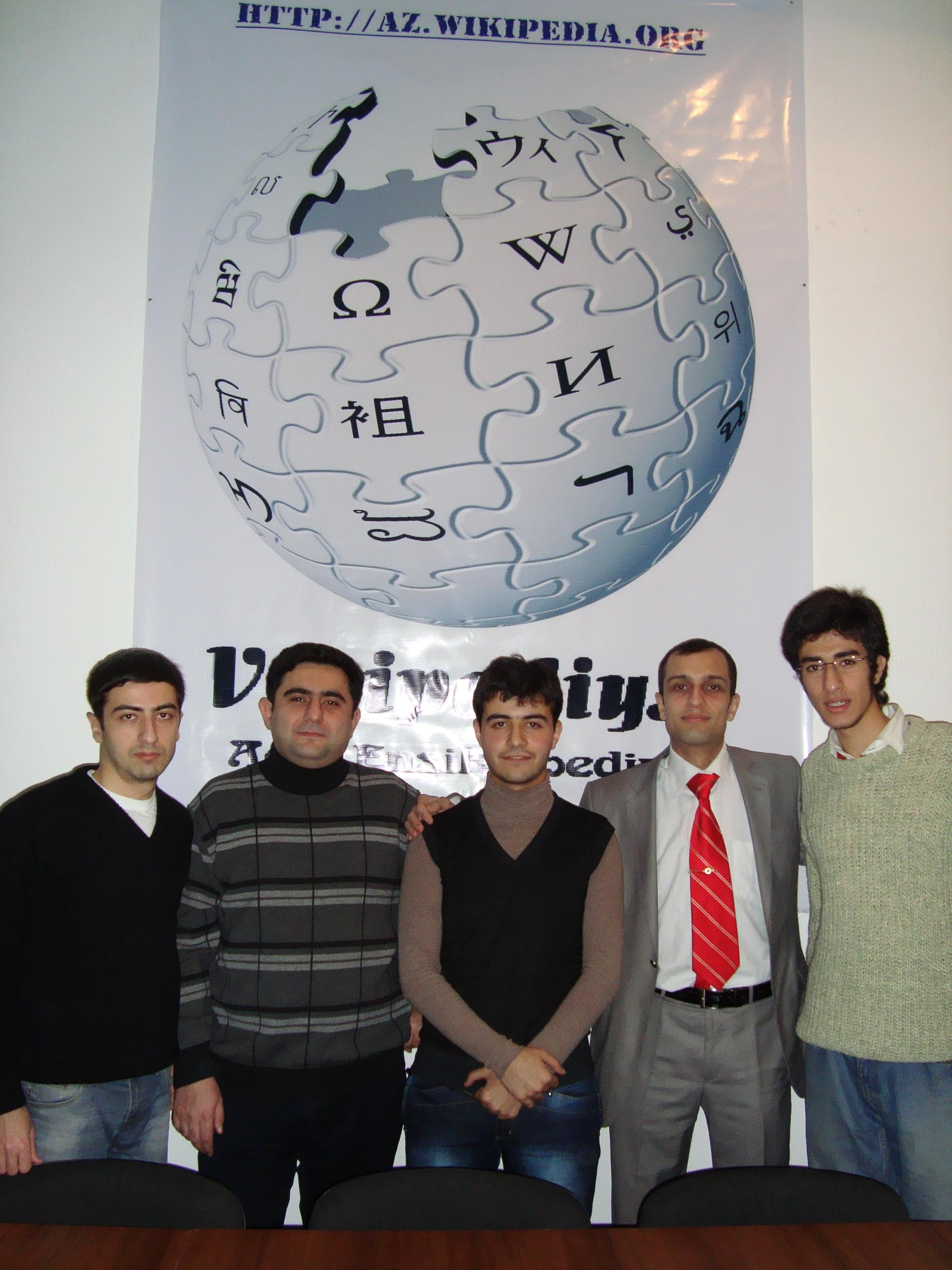 First meeting of Azerbaijani Wikipedians on December 6, 2009 in Baku